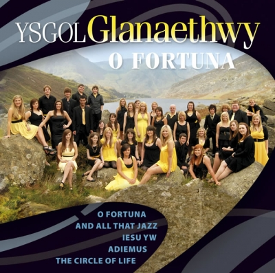 Artwork for the Album O Fortuna by Glanaethwy School Choir